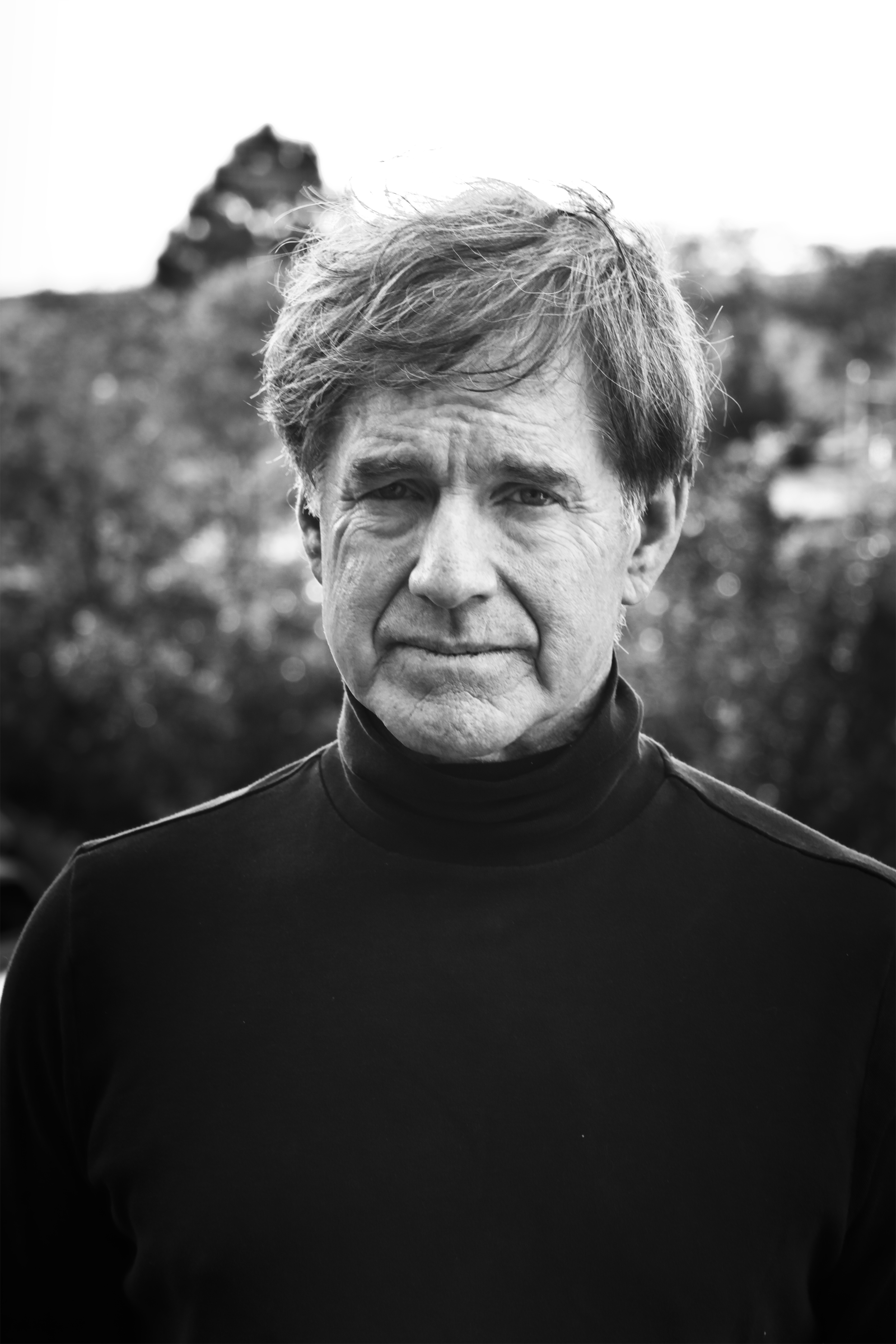 Portrait of Robert Stivers